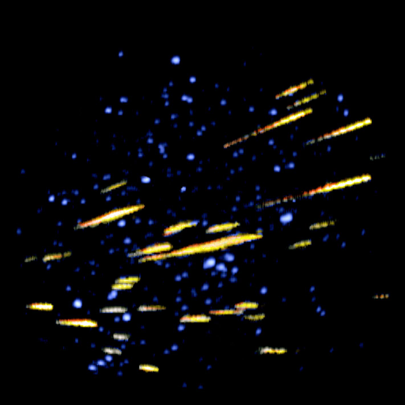 This picture is of the Alpha-Monocerotid meteor outburst in 1995. The Perseid meteor shower, usually the richest meteor shower of the year, peaks in August. Over the course of an hour, a person watching a clear sky from a dark location might see as many as 50-100 meteors. Meteors are actually pieces of rock that have broken off a comet and continue to orbit the Sun. The Earth travels through the comet debris in its orbit. As the small pieces enter the Earth's atmosphere, friction causes them to burn up.